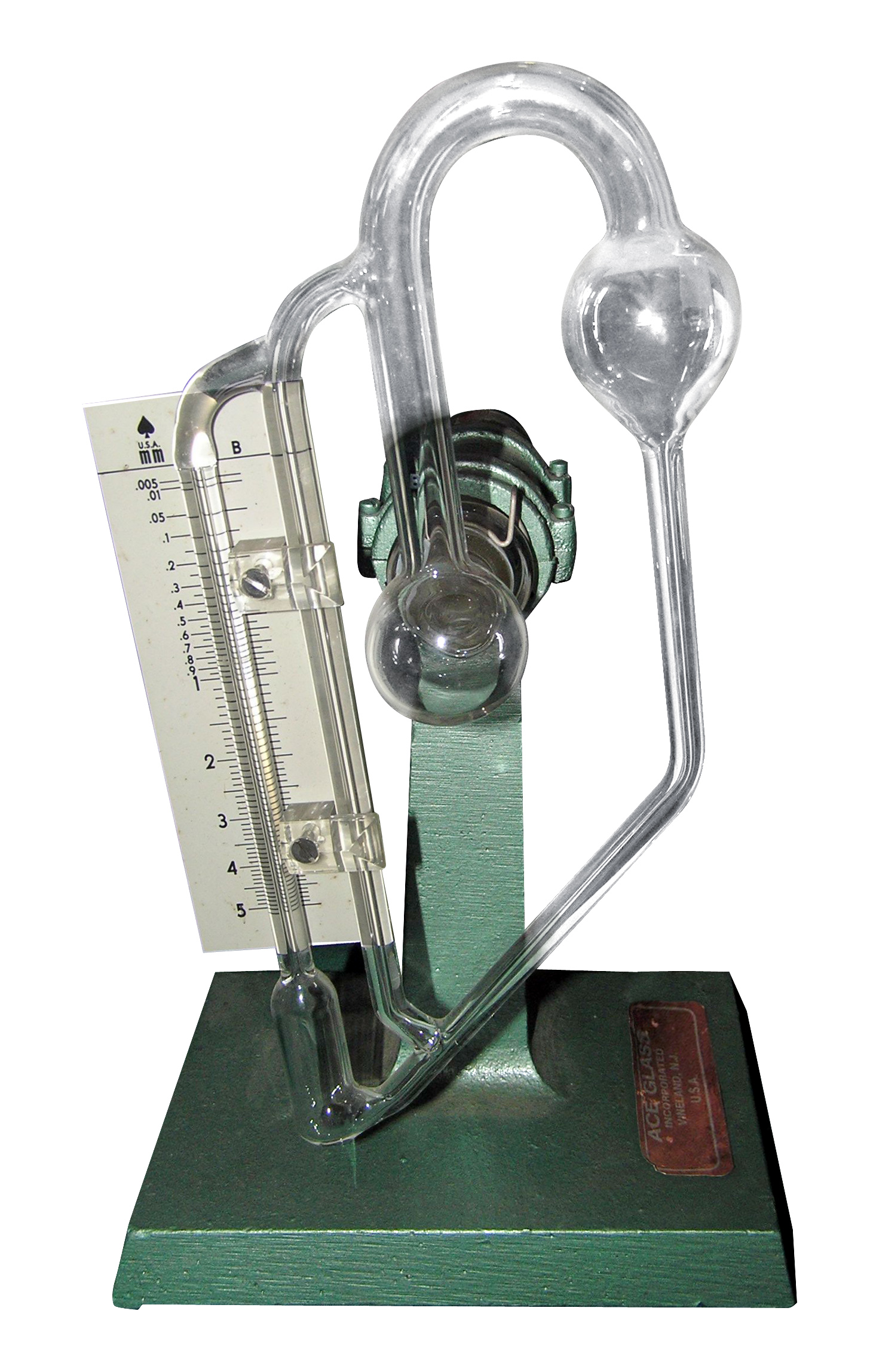 An old McLeod gauge is low pressure measuring instrument, which is used for high precision measurement of vacuum. As shown, it has been drained of mercury. This gauge is on display in the lobby of the Science building at Winthrop University. The vacuum port is not visible in the photograph; it runs through the center bearing and opens on the far side. The left hand column is sealed off at the top; this is visible by zooming in on the picture. The gauge was rotated clockwise to reset and counterclockwise to measure. Photo by Yannick Trottier, April 10th, 2006. Derivative image by Amada44